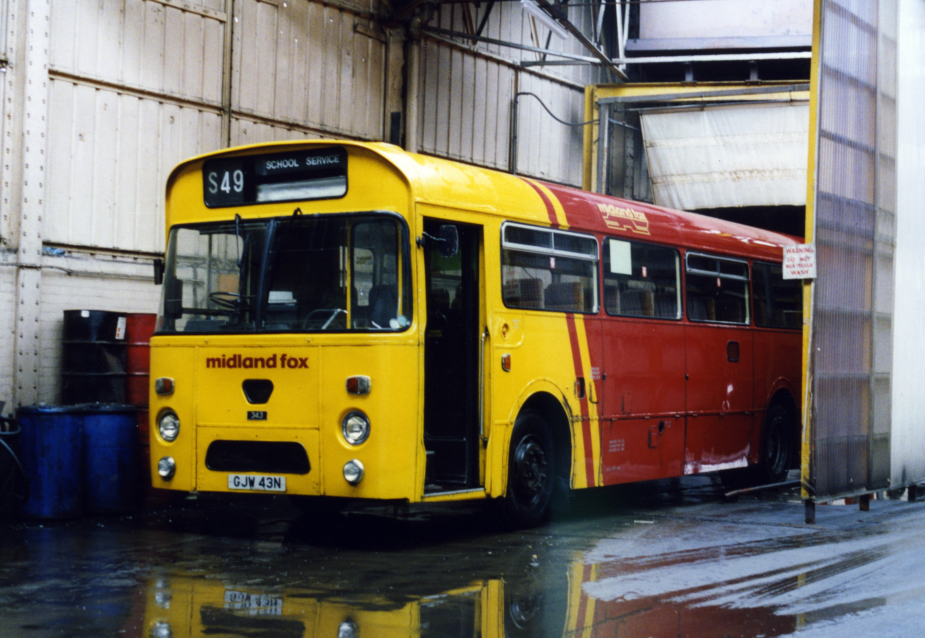 Midland Fox Leyland Leopard with Marshall BET-style bodywork, 343 (GJW 43N) in Coalville depot during the early 1990s.